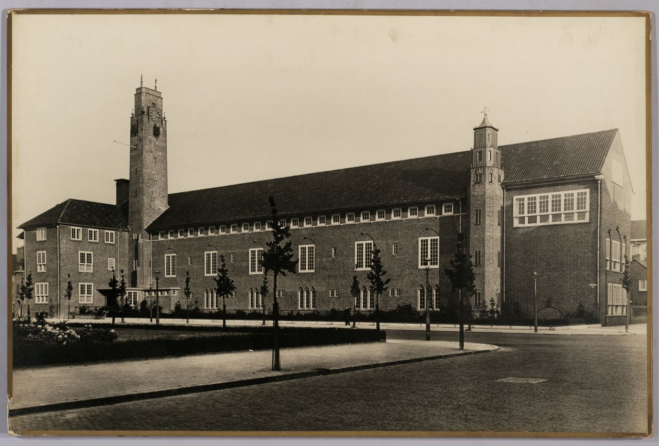 HBS voor meisjes, Euterpestraat/Gerrit van der Veenstraat, Amsterdam, 1930. Architect: N. van Lansdorp (Publieke Werken Amsterdam) Fotograaf: onbekend. Collectie NAi / TENT_n171 URL van deze afbeelding: Meer foto's uit deze collectie kunt u bekijken in de Collectiedatabase van het NAi. Niet van alle gebouwen en interieurs zijn alle gegevens bekend. Heeft u meer informatie of weet u het adres van een gebouw? Laat dan een reactie achter (als u ingelogd bent bij Flickr) of stuur een mailtje naar: Al deze foto's zijn gemaakt in de eerste helft van de twintigste eeuw. Wij zijn benieuwd hoe deze gebouwen er vandaag de dag uitzien. Heeft u recente foto's van deze gebouwen of locaties, voeg ze dan toe als commentaar. U kunt een eigen Flickr-foto toevoegen door de URL ervan tussen vierkante haken in het commentaarveld te plakken. Secondary School for girls, Euterpestraat/Gerrit van der Veenstraat, Amsterdam, 1930. Architect: N. van Lansdorp (Publieke Werken Amsterdam) Photographer: unknown. NAI Collection / TENT_n171 Persistent URL: For more photographs from this collection, please visit the NAI Collection Database You can help us gain more knowledge on the content of our collection by adding a comment with information. If you do not wish to log in, you can write an e-mail to: All these pictures are taken in the first half of the twentieth century. We are curious to learn how these buildings look like today. If you have recently taken photographs of these buildings or locations, please add them to your comment. If you'd like to include a Flickr photo, simply copy and paste its URL between square brackets in the commentary-field.